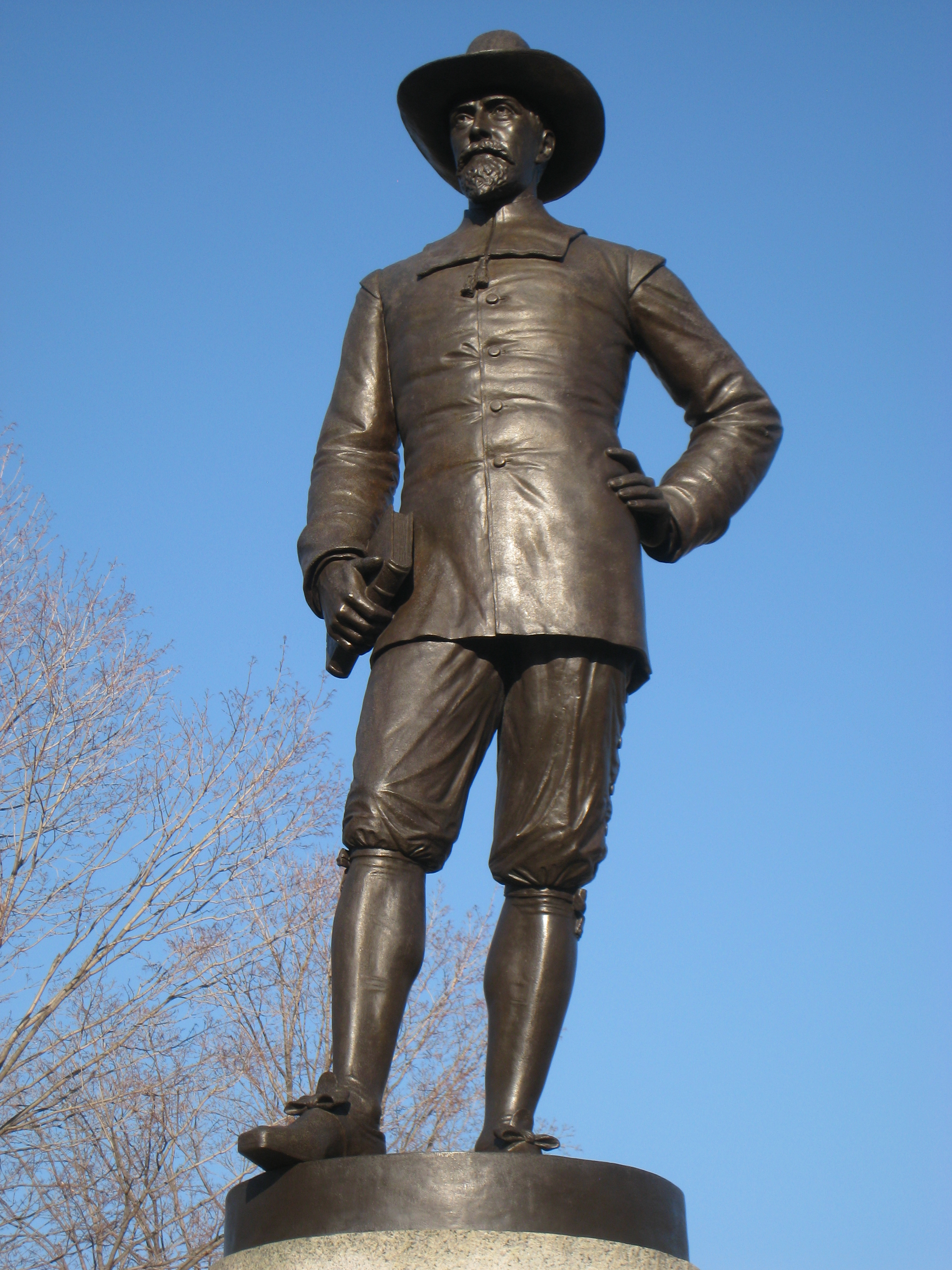 Statue of puritan settler John Bridge by Thomas Ridgeway Gould (1818-1881), completed by Gould's son, located on the commons, Cambridge, Massachusetts, USA. Dedicated in 1882.